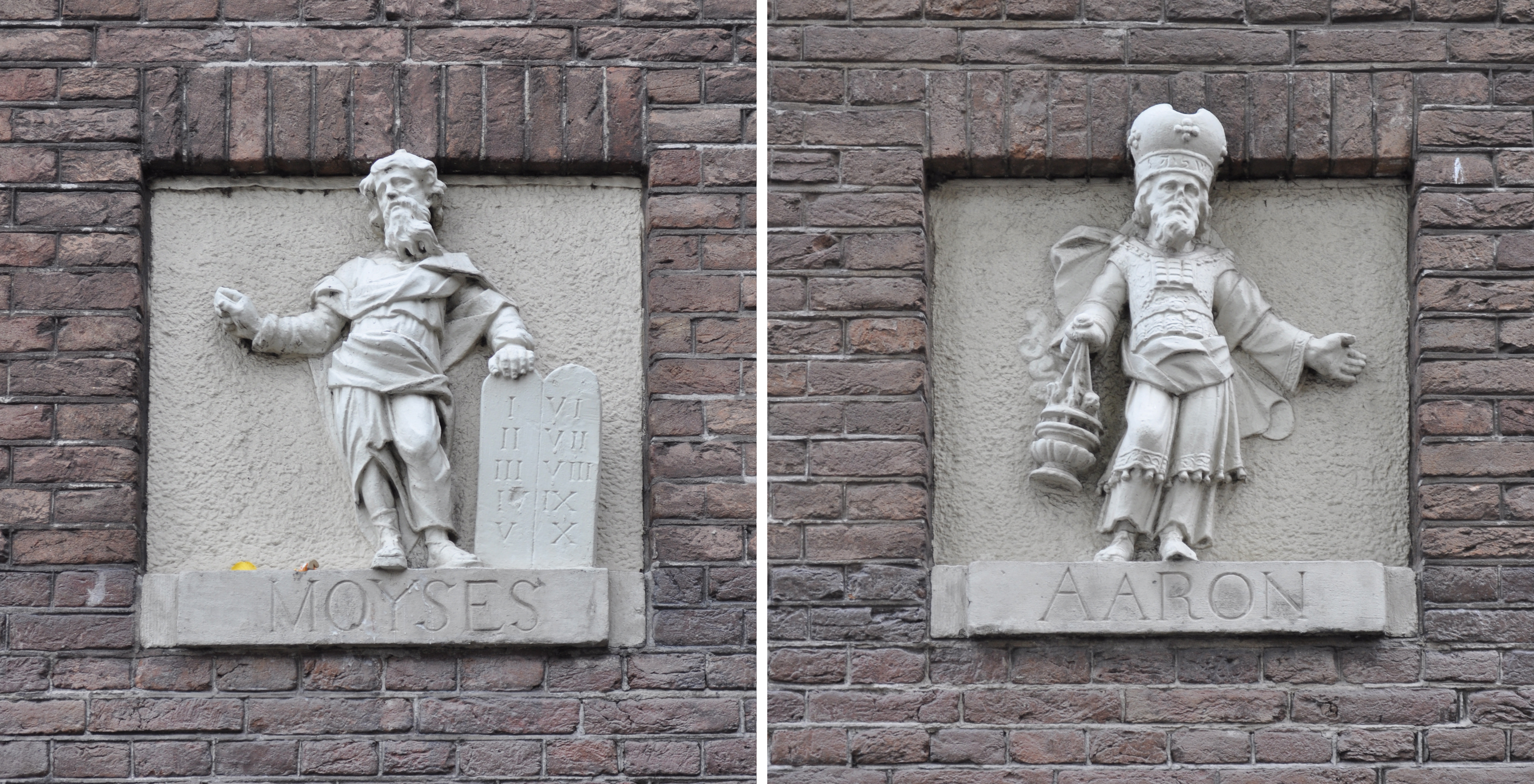 Two little reliefs (Moses and Aron) at the backside (Jodenbreestraat) of the Mozes & Aaronchurch in Amsterdam.